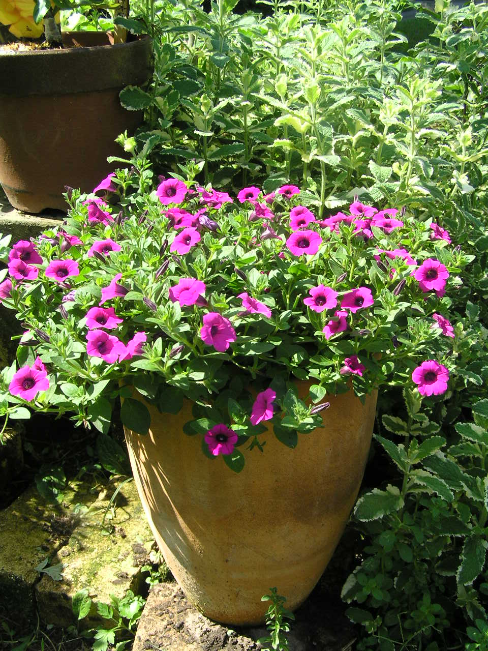 [burietsuta] (purple) first gardening (Used Yahoo! Babelfish)